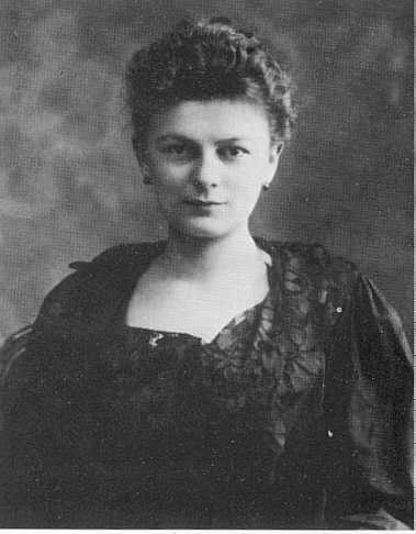 Sophie Chotek